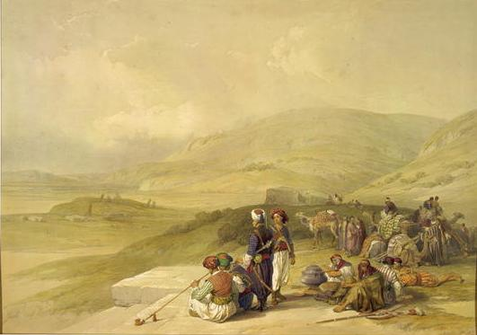 Painting of Jacob's Well